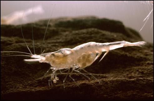 USFWS Headquarters Status: Endangered Photo credit: Chip Clark, Smithsonian Institution